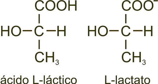 L-lactic acid and lactate formula